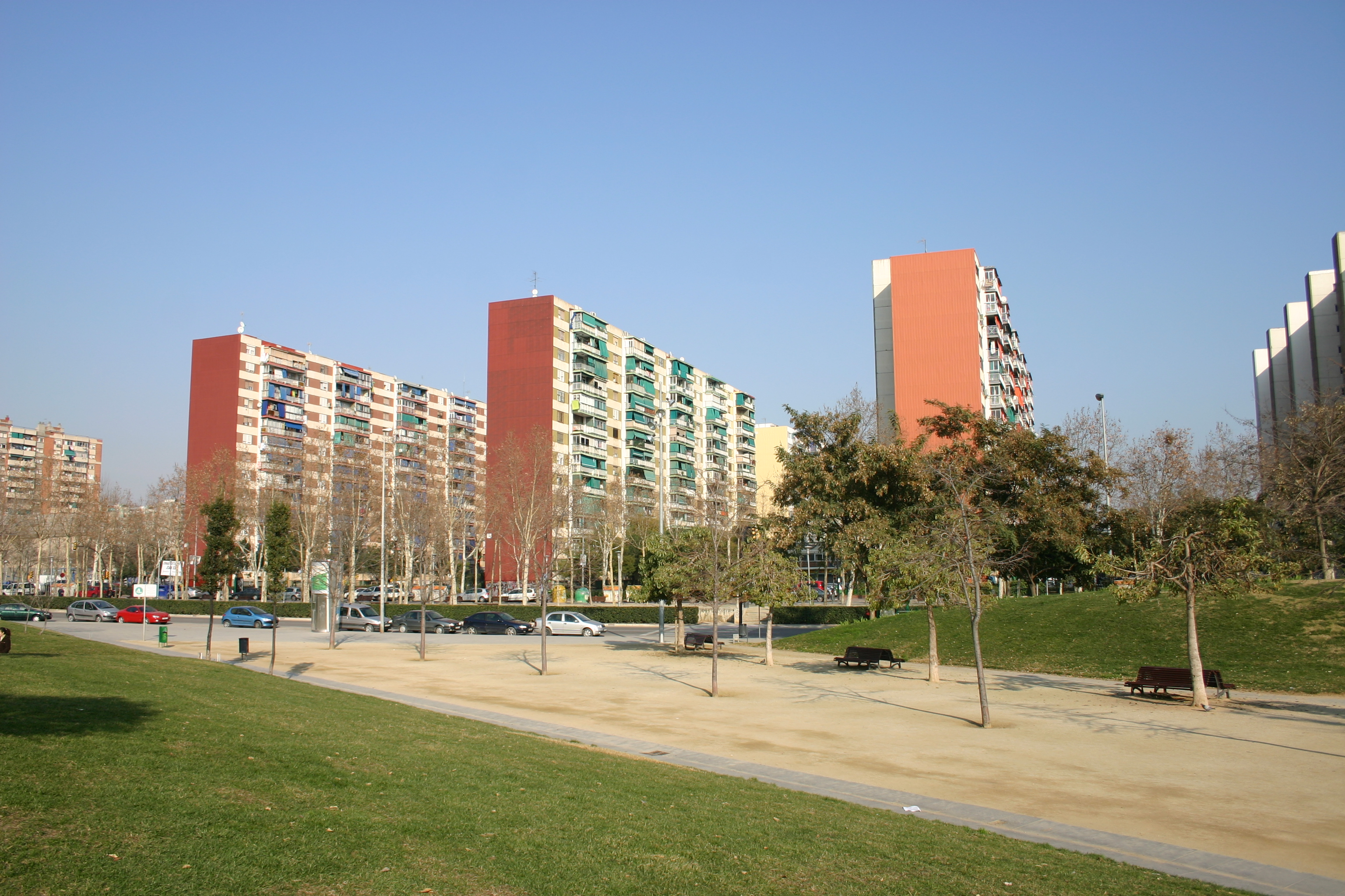 Hospital de Bellvitge Author: User:Yearofthedragon Note